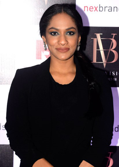 Masaba Gupta snapped attending the Power Brands event.